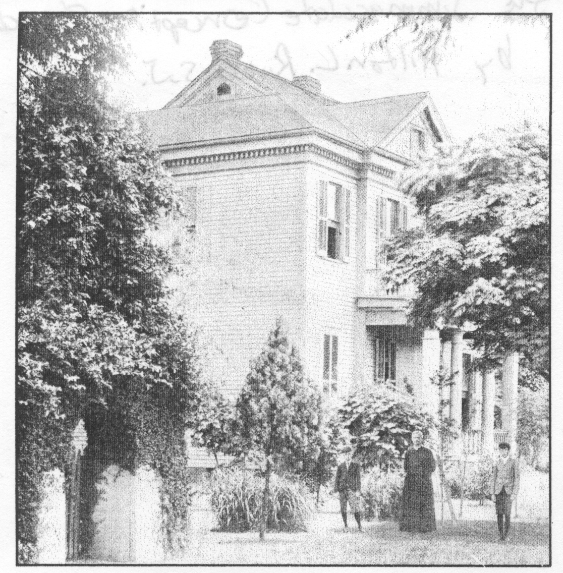 Photo of Loyola College in 1904.